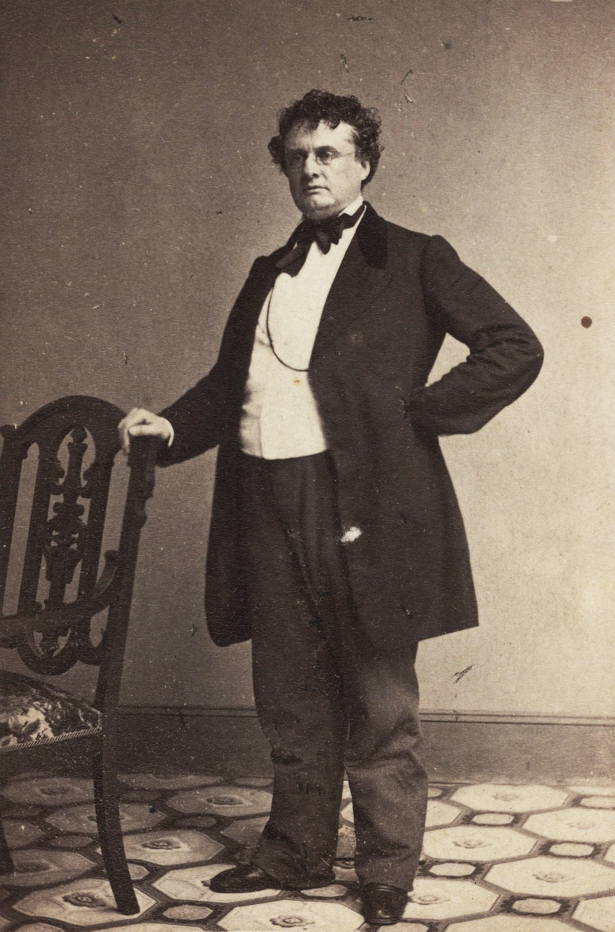 Cropped and edited version: Photographic image of John A. Andrew, Governor of Massachusetts, 1861-1866. Carte-de-visite published by E. Anthony from a photographic negative in Mathew Brady’s National Portrait Gallery. MS Am 1084 (59), Military Order of the Loyal Legion of the United States Commandery of the State of Massachusetts Civil War Collection, Houghton Library, Harvard University